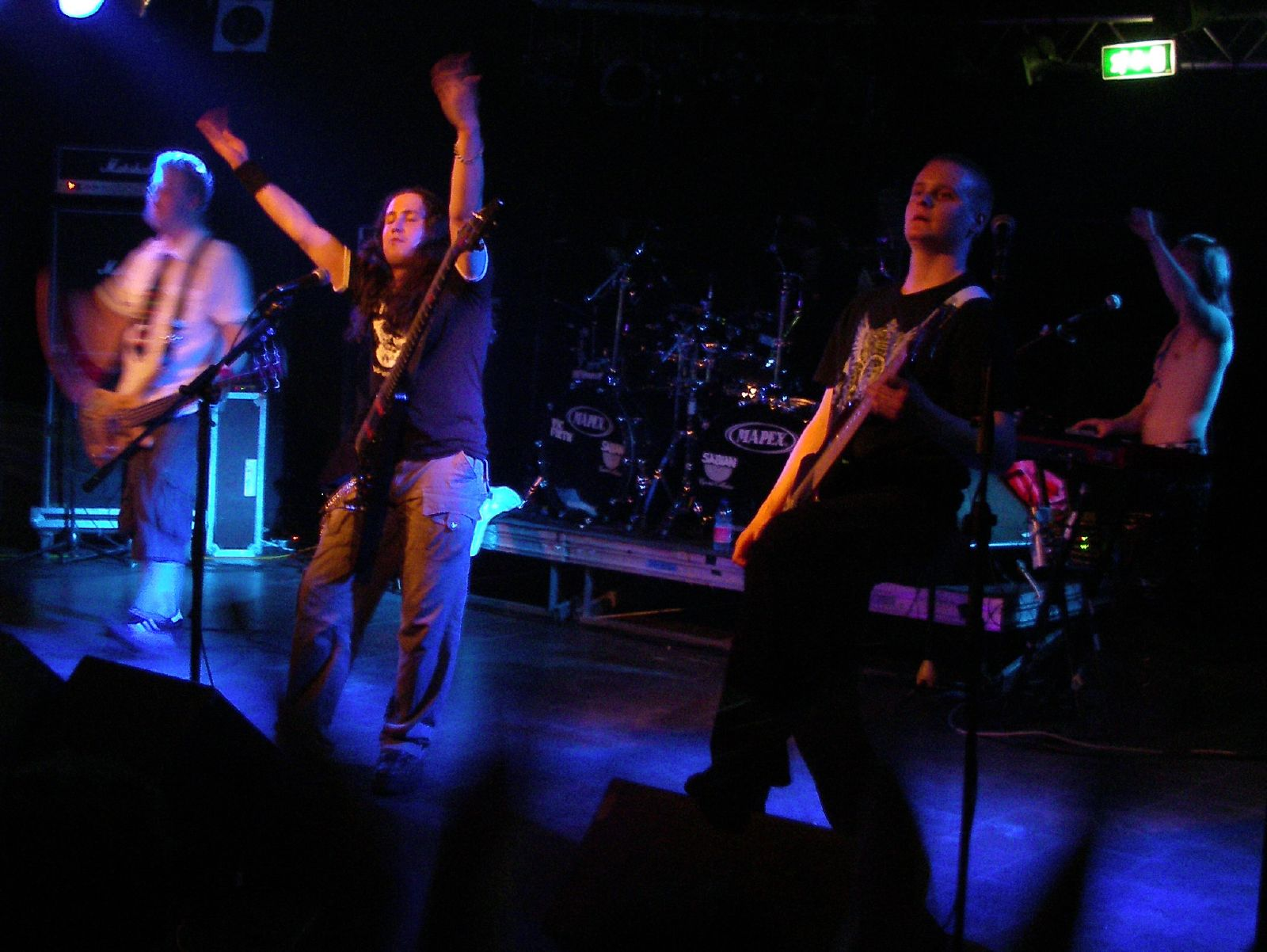 Naildown in 2007.